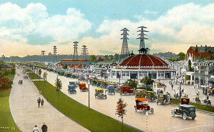 Boardwalk at Sunnyside, Toronto, Canada.